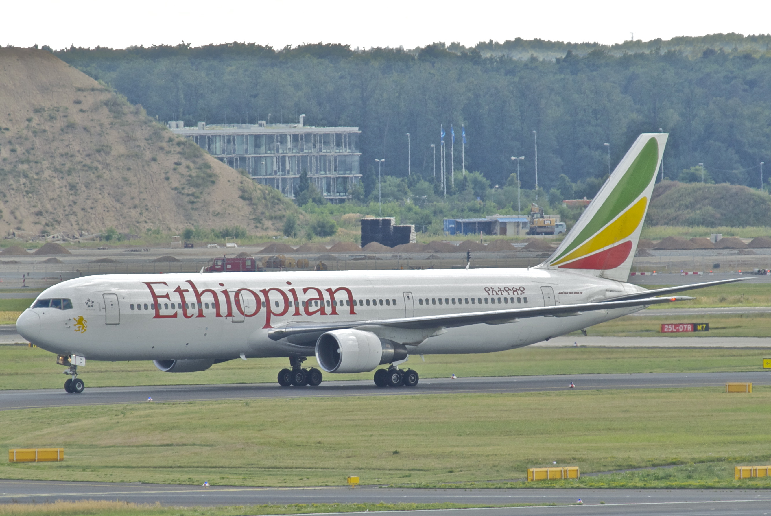 Ethiopian Airlines Boeing 767-300ER; ET-ALC@FRA;13.08.2012/674cq